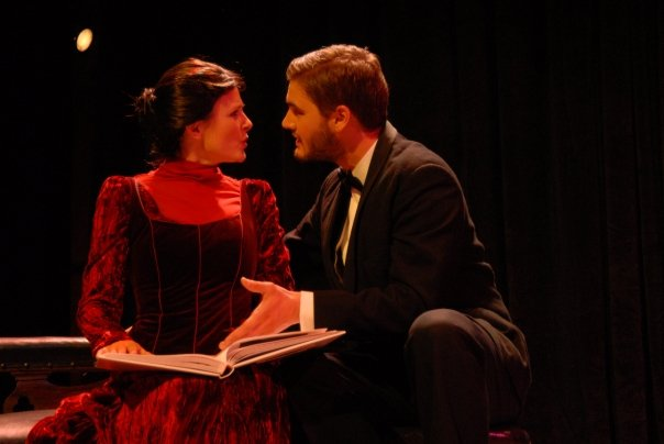 Susanne Sheehy and Tom Bateman play Hedda Gabler and Eilert Loevborg